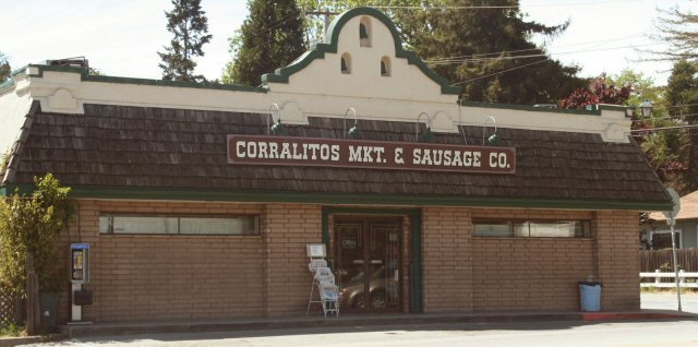 Corralitos market in Corralitos, California.